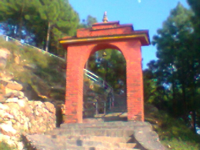 Bhairav ??temple of Vilaspur